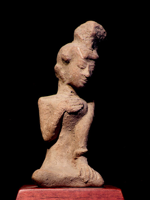 Figurine of a woman. Her head is inclined down and tilted to the left. Her right hand is placed on her breast, her left hand, with the elbow forward flexed is on her knee. The hair is piled up on the left side and she has a flower over her right ear, some decoration over her left ear, a flower in the center. She has a braid of hair falling down her back. On her brow is the chip mark of the digging tool of her finder. Ht 12 x 4 x 6cm